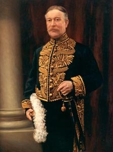 Portrait of V.A. Long